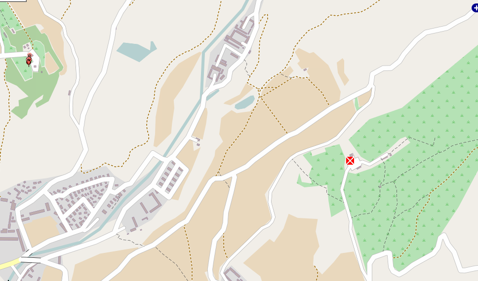 Facilities at the Musudan-ri complex in North Korea. Showing the launch pad at the left of the image and the rocket motor test stand at the right of the image (with the red X). Created using the wikipedia overlay on an Open Street Map